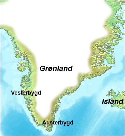 Map over Eirik Raude's Greenland